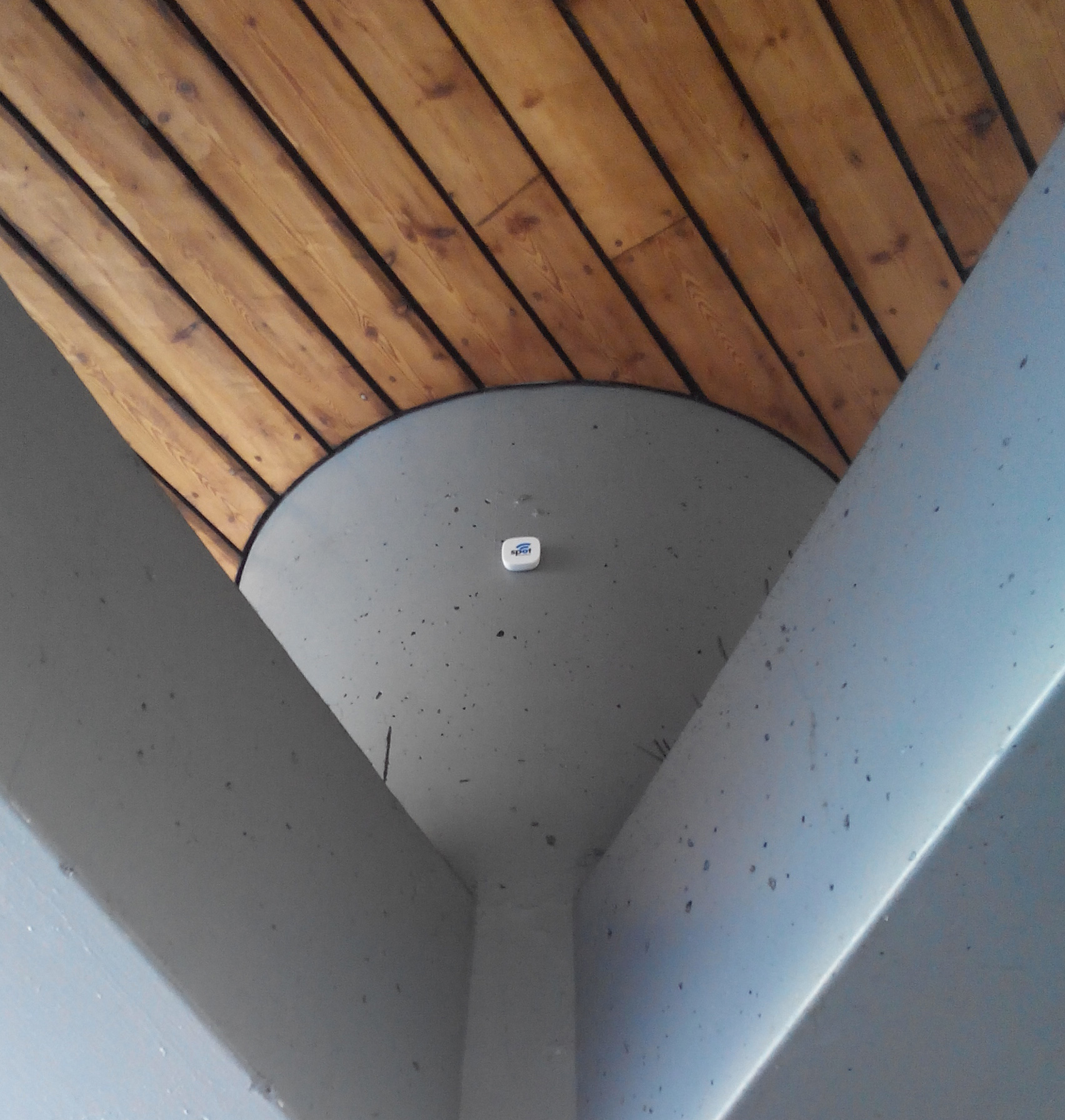 iBeacon installation - spot on the building